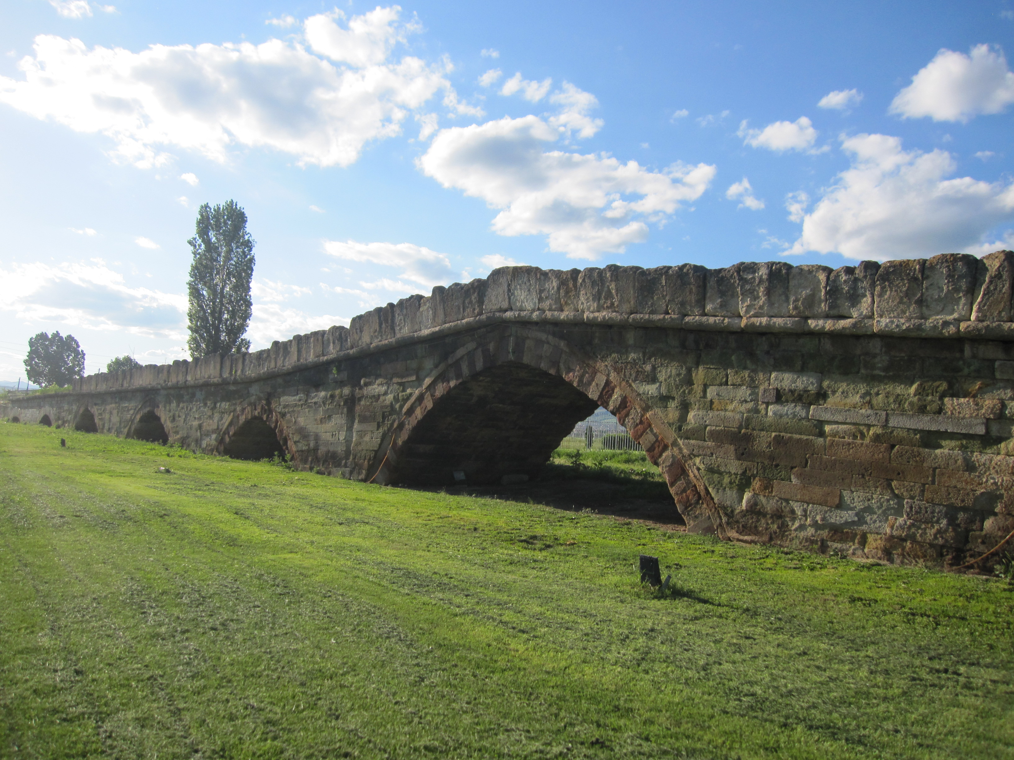 Stone bridge, Vushtrri, Kosovo